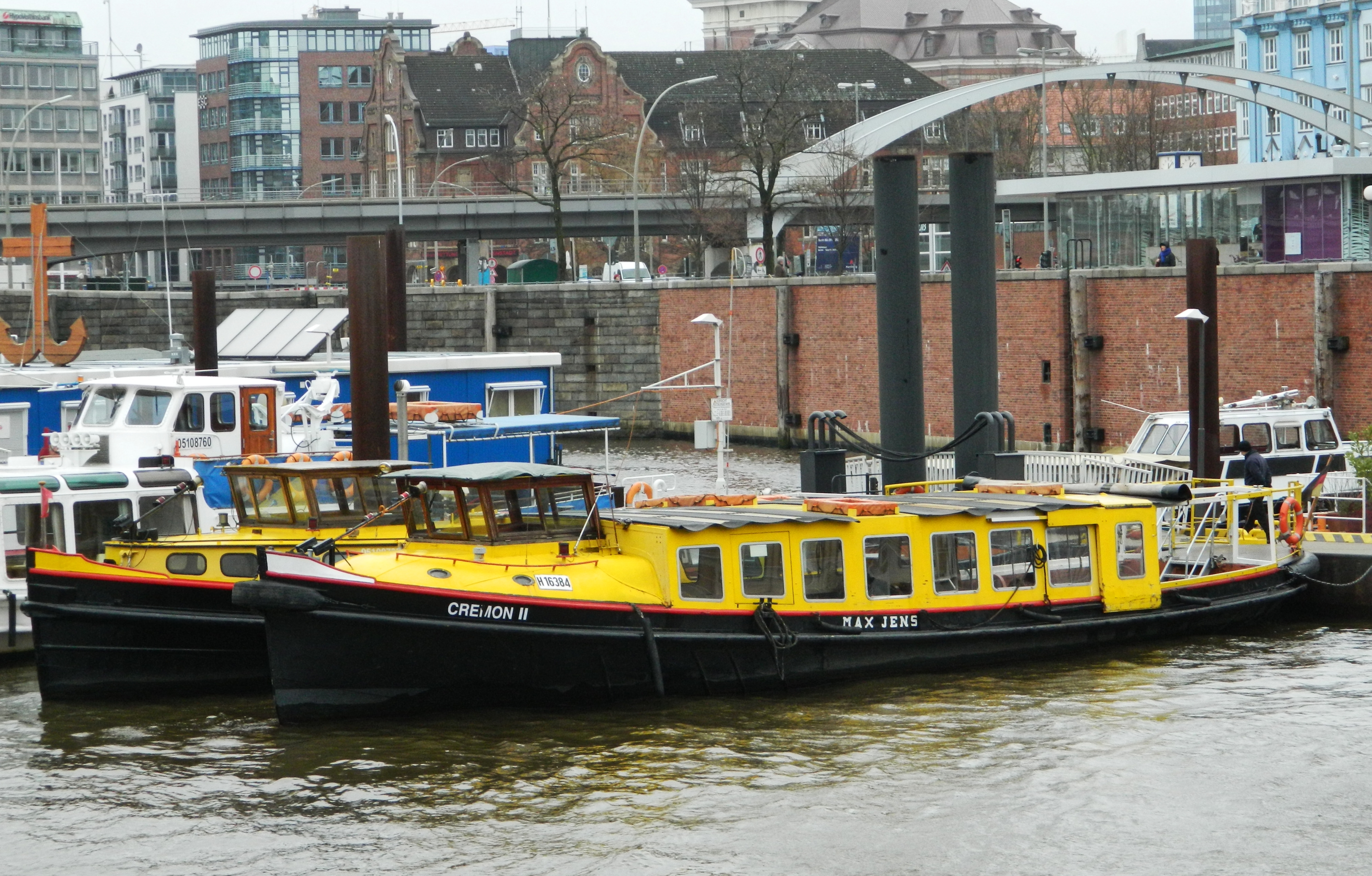 Cremon II